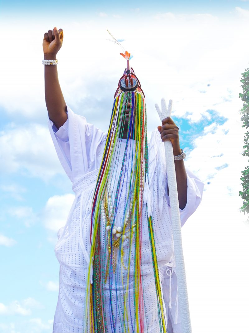 At the Olojo 2016 festival, Ooni Adeyeye wore the Ade-Are in public for the first time.